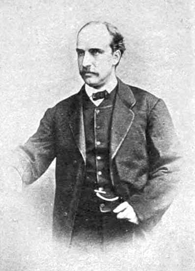 Photograph of journalist and financier Henry Villard in 1866